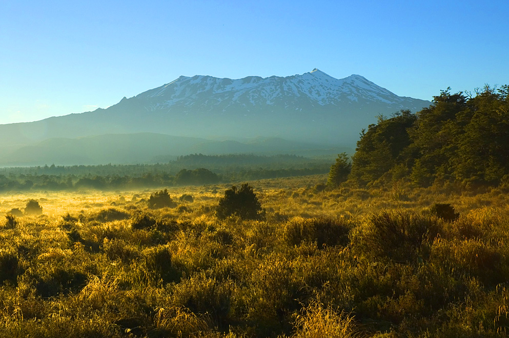 Ruapehu at dawn (29 January 2005.) Photograph by James Shook, who retains copyright and releases the image under the license shown below.